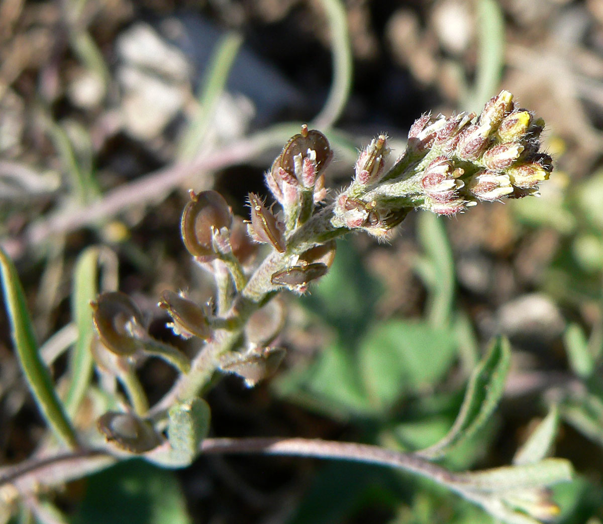 Alyssum desertorum var. desertorum near Camp Bonanza Road about 200 m south past the houses in Cold Creek, Spring Mountains, southern Nevada (elev. about 2000 m)